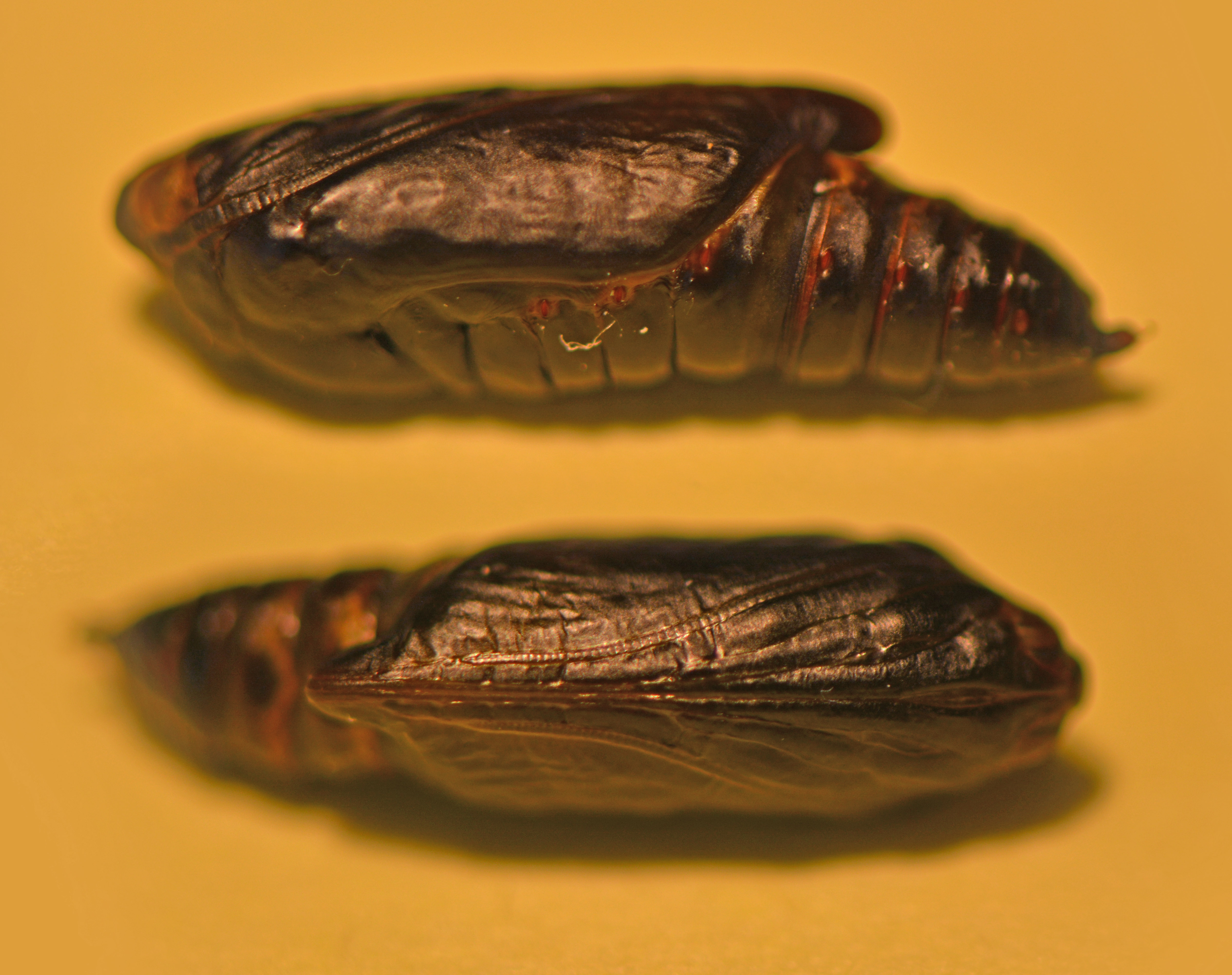 Chrysalis in formation of Ctenoplusia accentifera, found in a loose cocoon in a mint leaf curled up on a Mint potted (grown in the north of France, late August 2018)